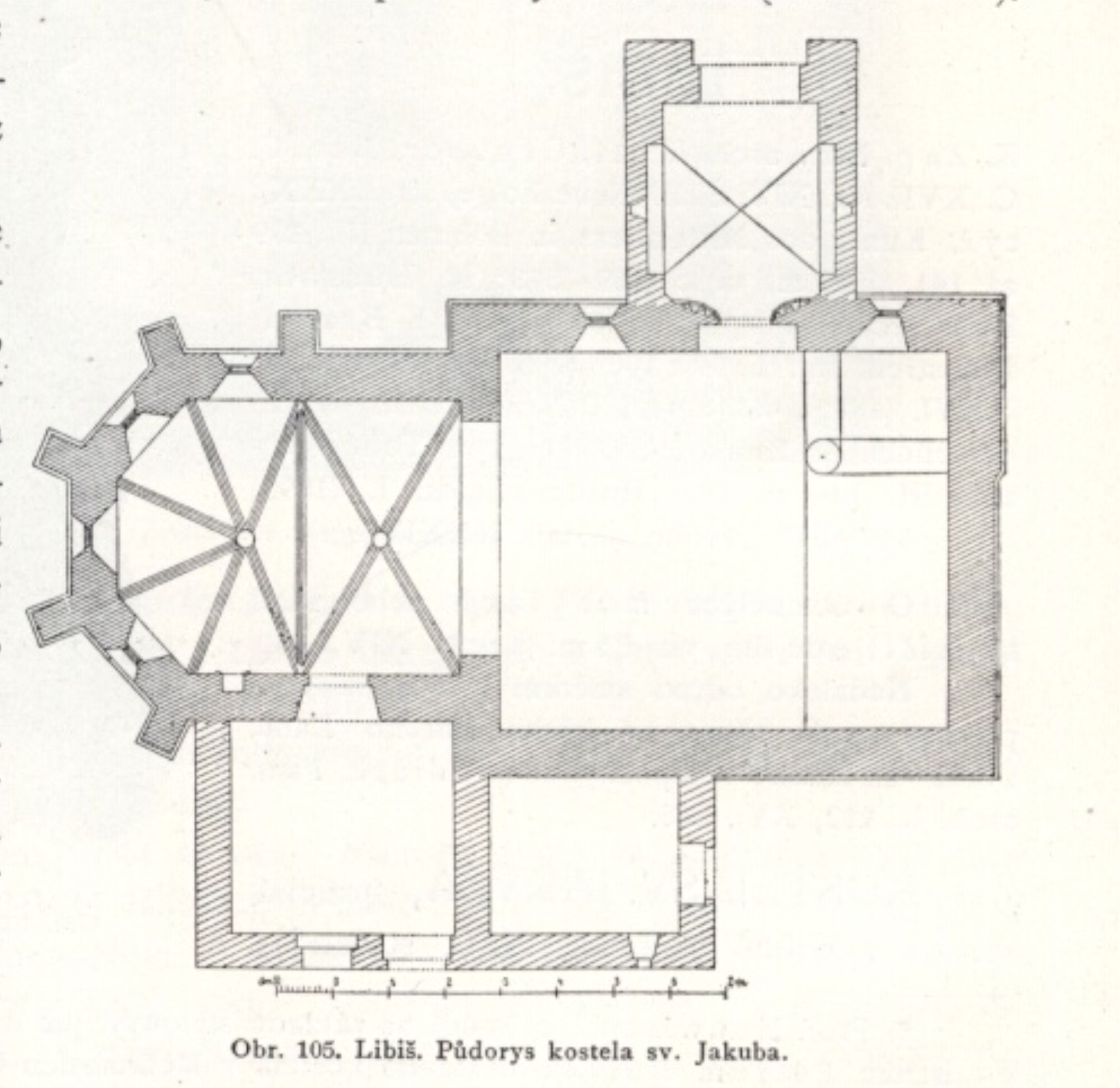 Ground flor of the church of the St. Jacob in Libiš